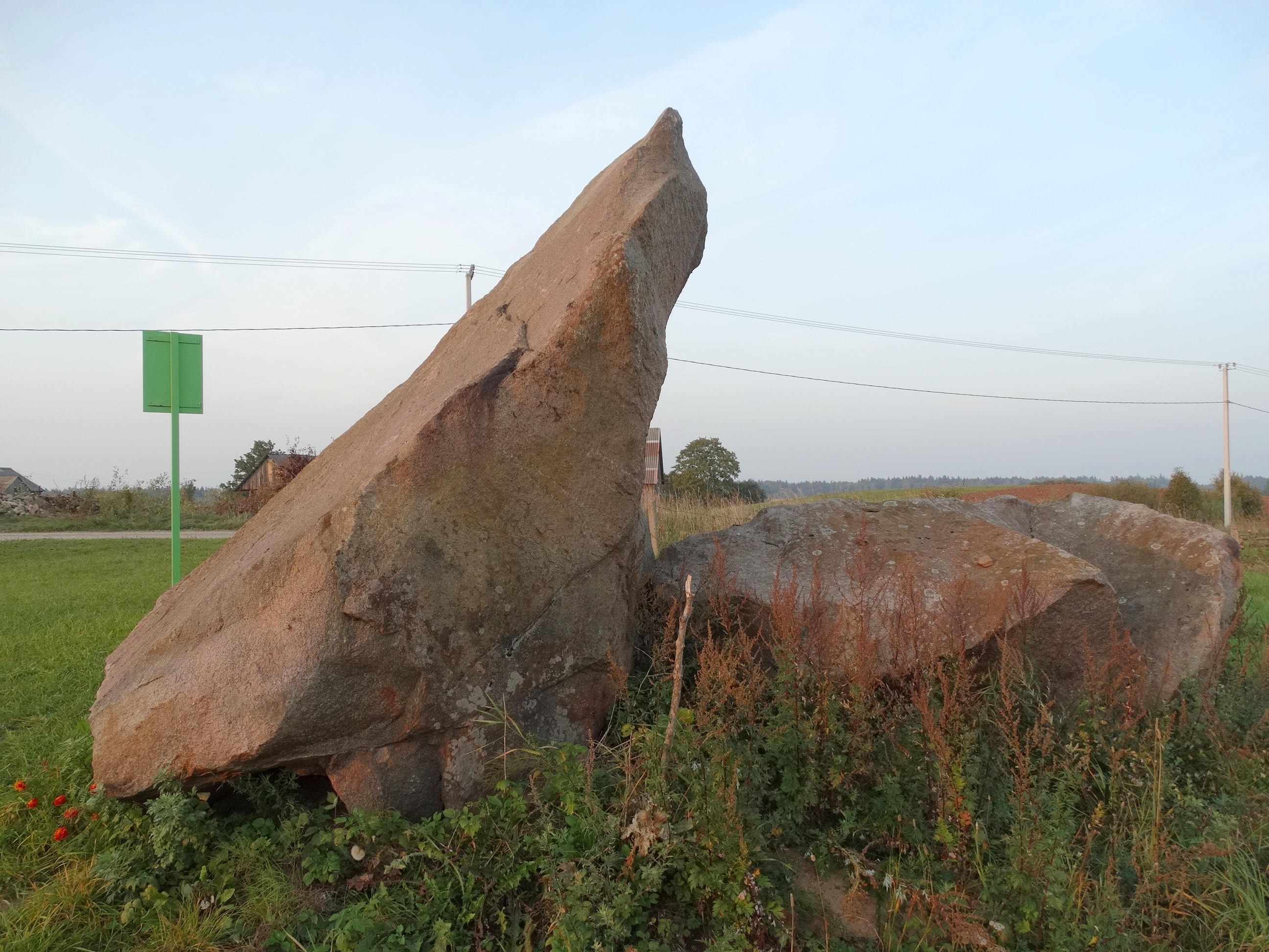 Stones in Kovaičiai, Kaišiadorys District, Lithuania